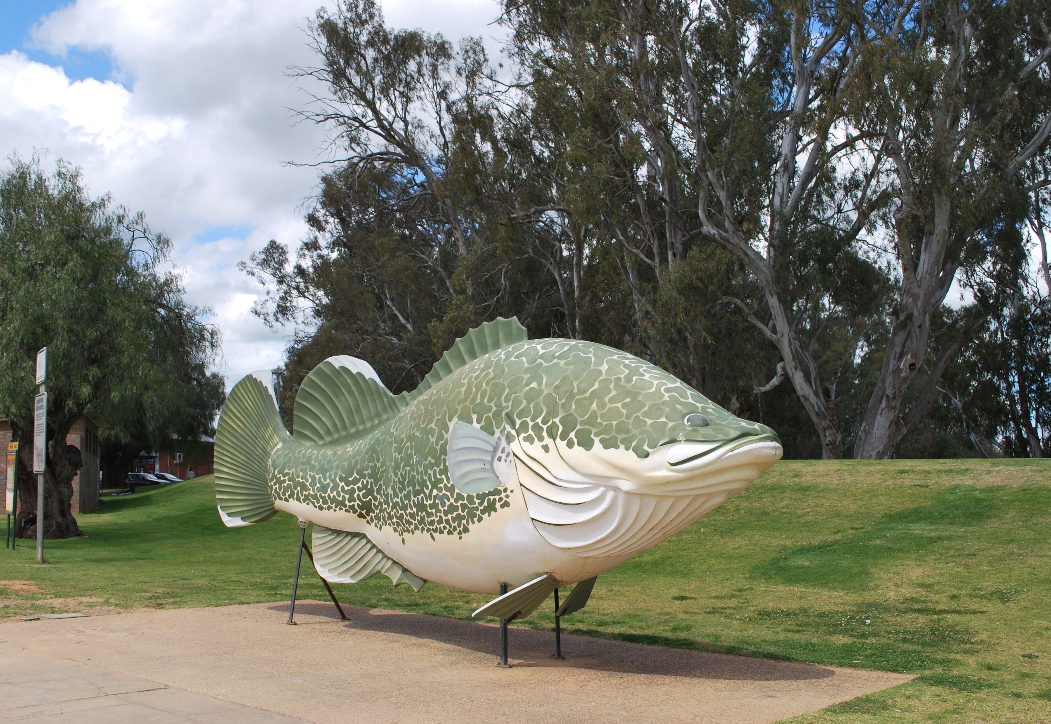 The Big Cod at Tocumwal